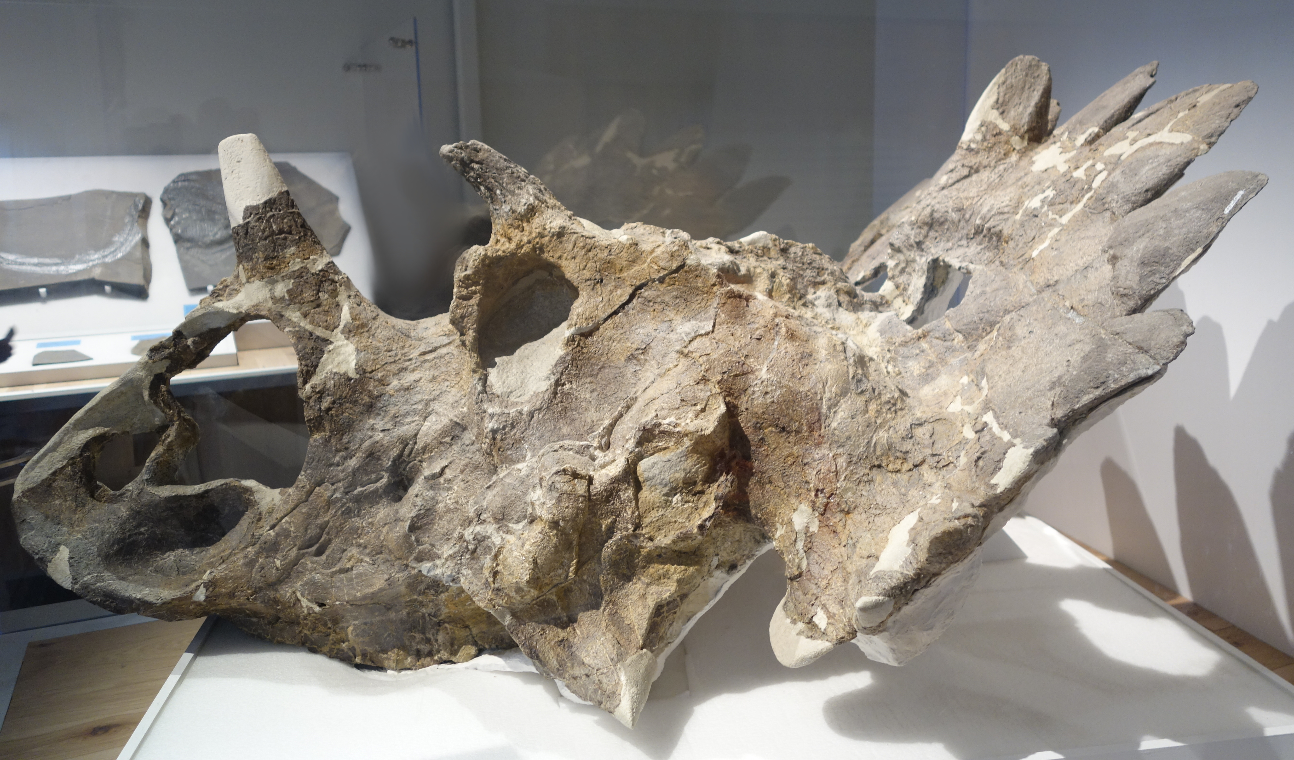 Skull of Regaliceratops petershewsi (original). Specimen number TMP 2005.055.0002. Found in the St. Mary River Formation, Waldron Flats, Alberta. On display at the Royal Tyrrell Museum, Alberta.